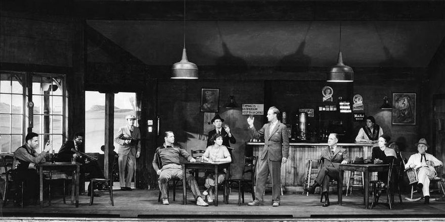 Photograph of the Broadway production of The Petrified Forest